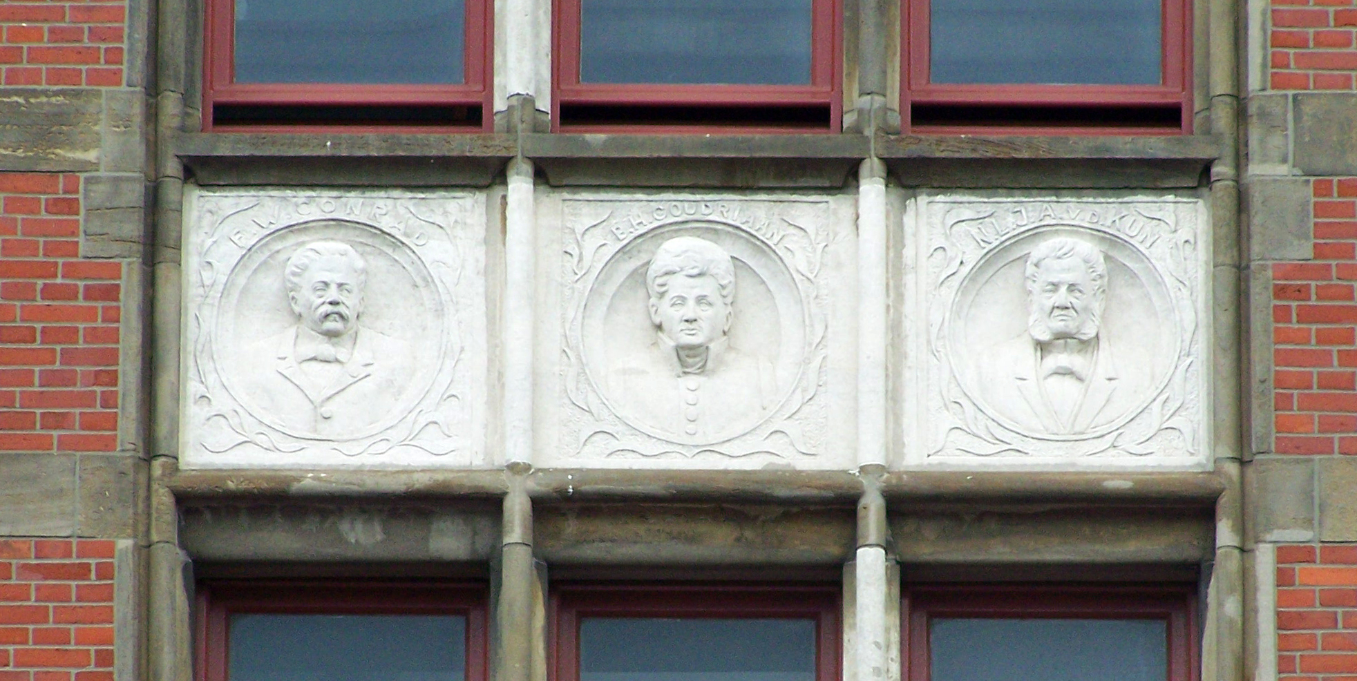 Reliefs F.W. Conrad, B.H. Goudriaan, L.J.A. van der Kun made by Matthias Noppeney in 1889 and placed at the outer wall of Amsterdam Central Station, western tower.